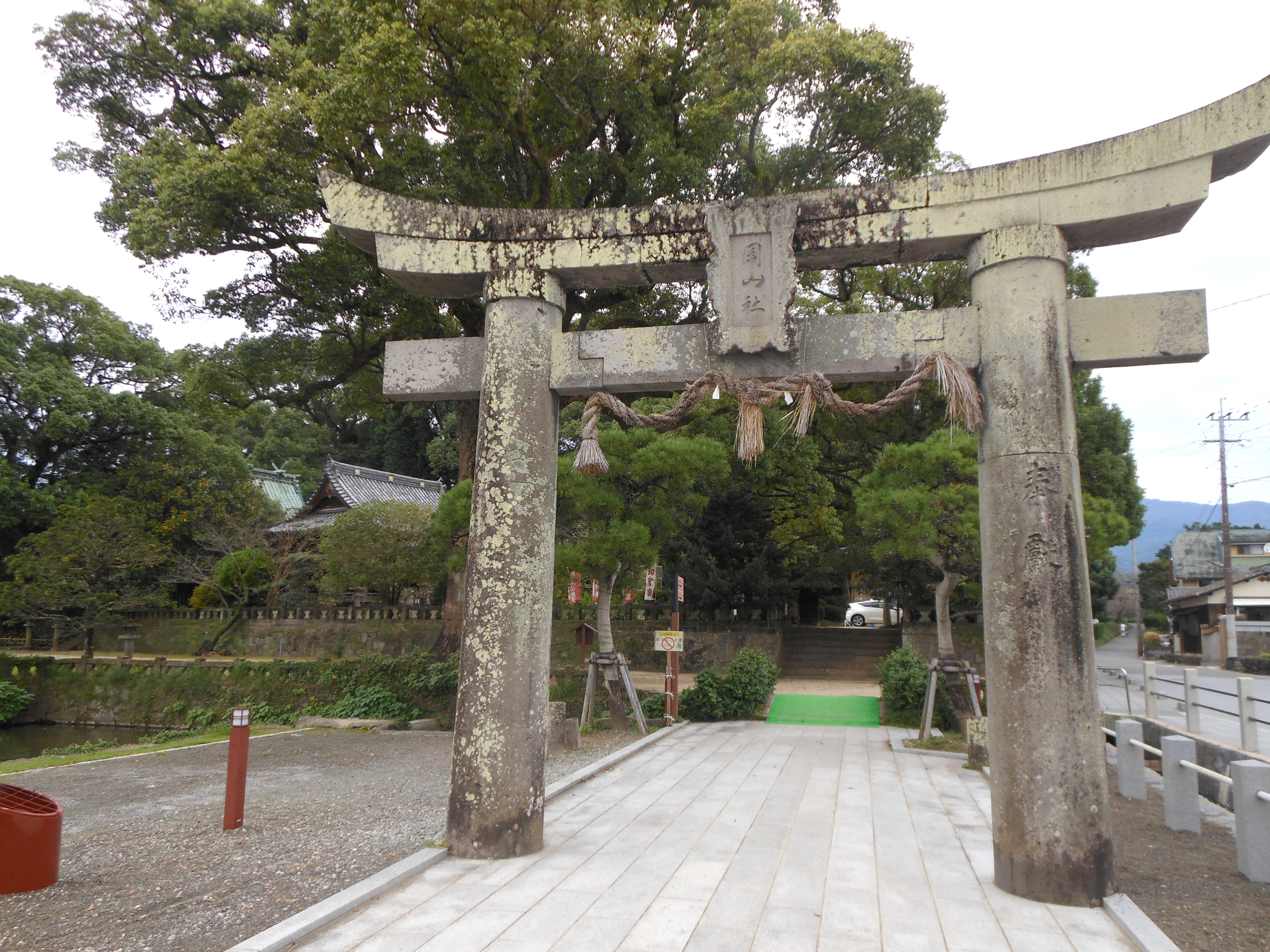 Torii of Okayama Shrine, near Ogi Park, in Ogi city, Saga prefecture.